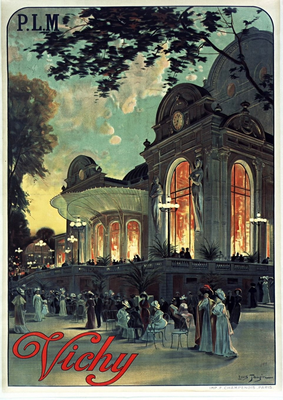 P.L.M. Vichy, affiche